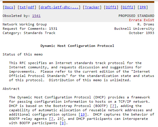 Part of the first page of DHCP old standard RFC 1541, it contains a small introduction and an abstract, the date of issue as well as the author name are written.